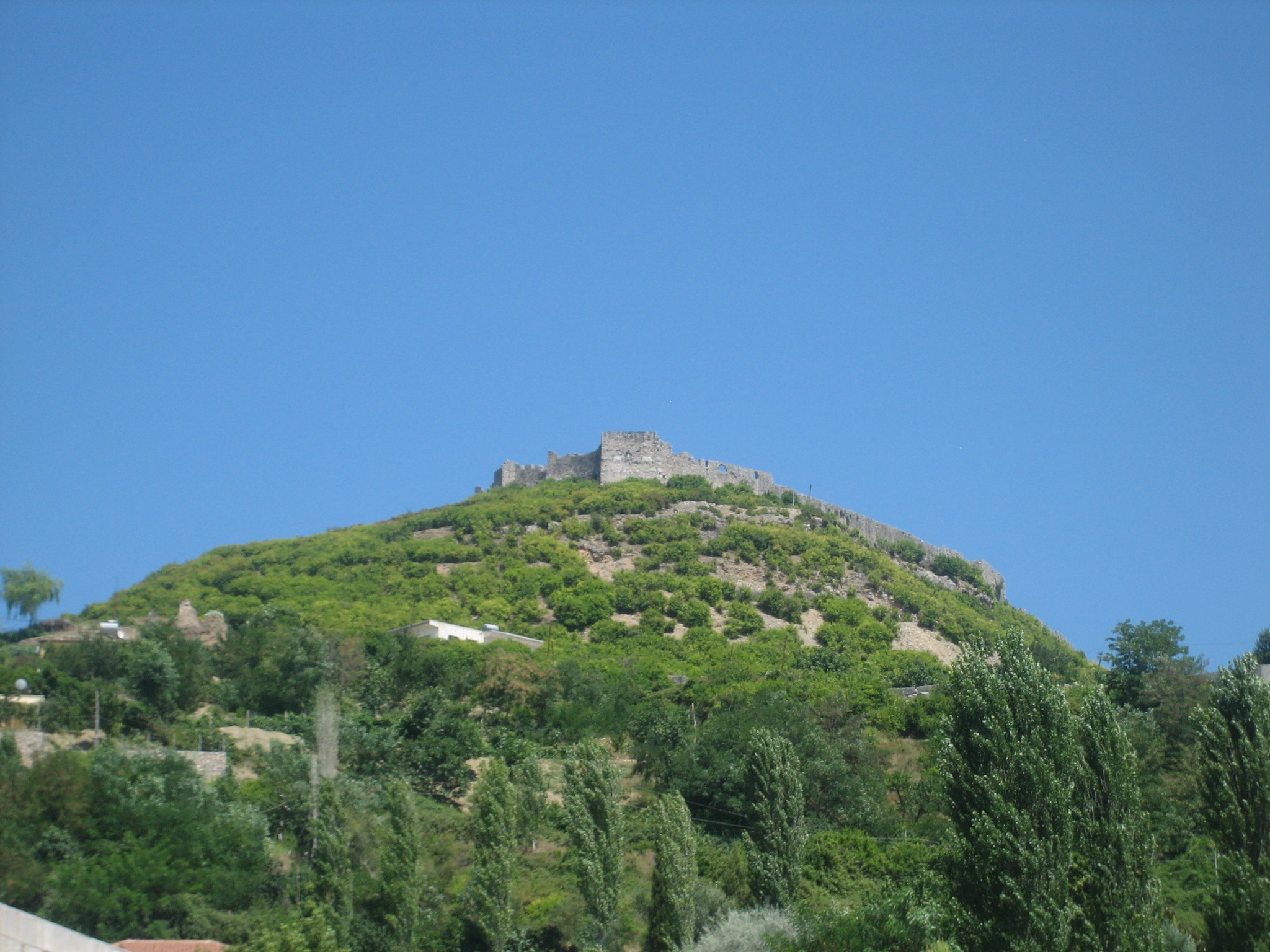 View of hill with Lezhë Castle, Lezhë, Albania